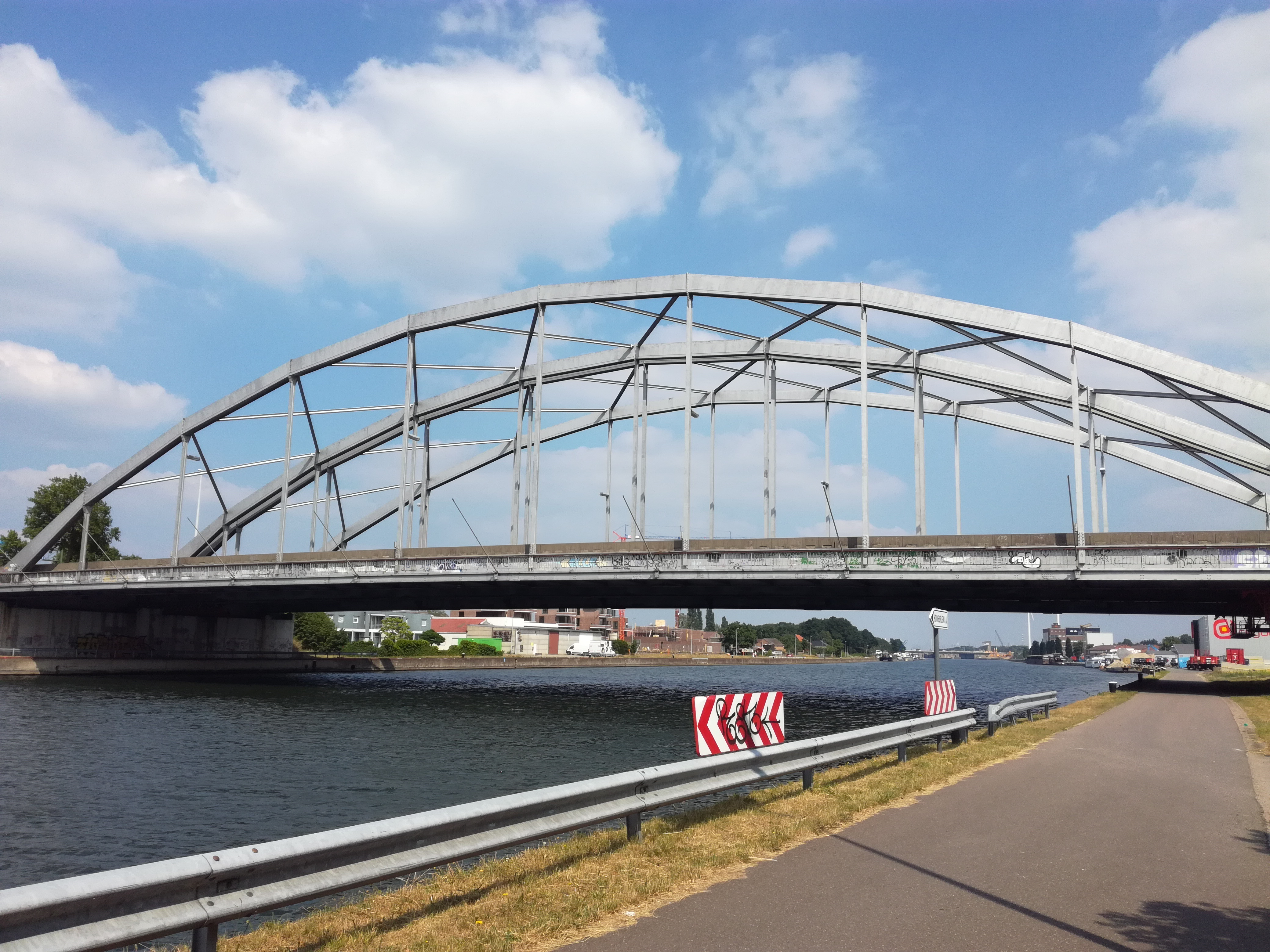 Bridge over Albertkanaal in Hasselt